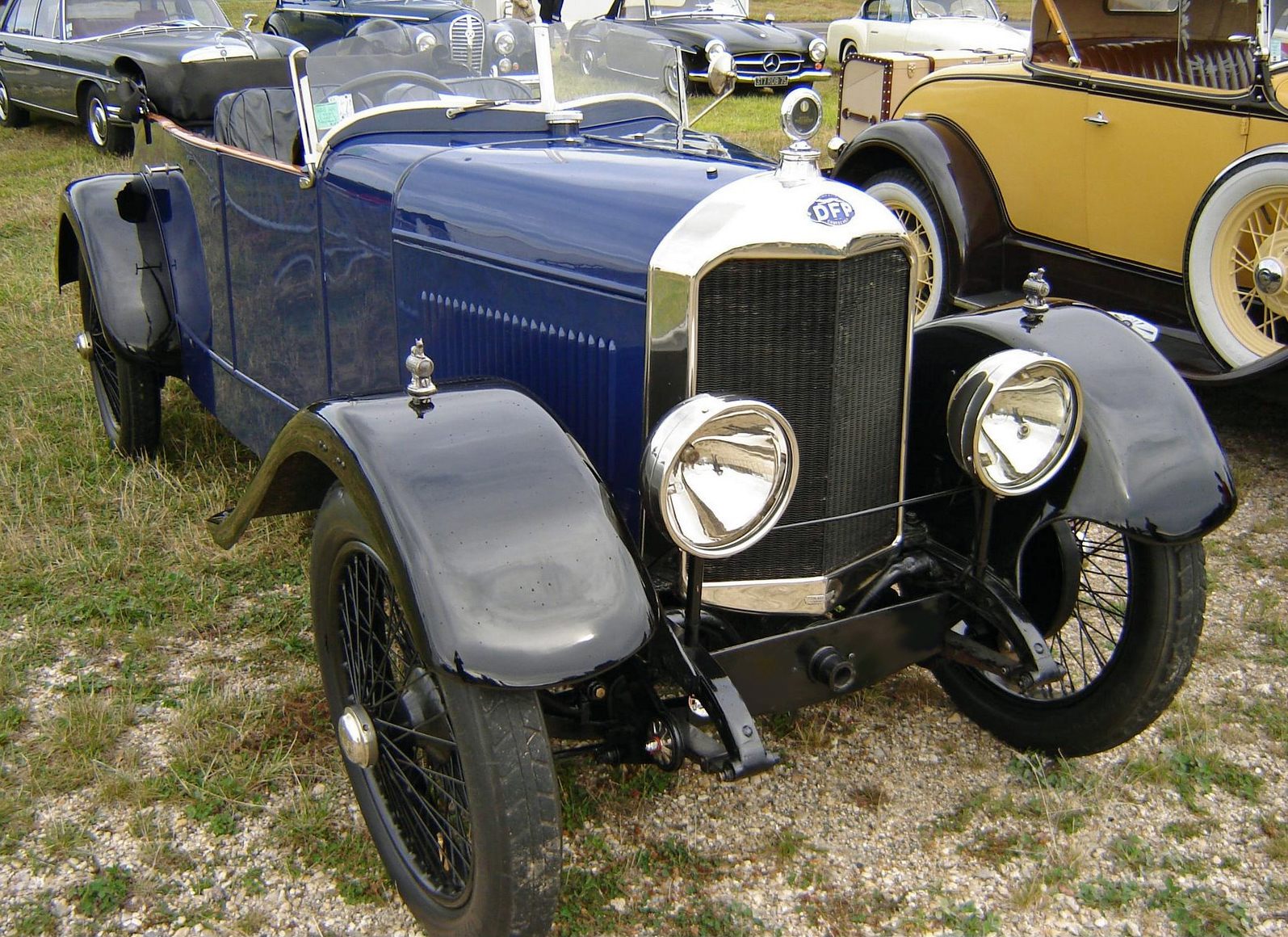 A 1924 DFP (Doriot Flandrin Parant) ADM 2000, 12CV (1,847cc). This is the ninth, of about a hundred built, and the only surviving example. DFP, located in Courbevoie, had the motto "fidèle et vite" (fast and faithful). This was also inscribed on the badge, which also features a greyhound. Founded in 1906, DFP was defunct by 1933. Seen at the Autodrome de Linas-Montlhéry, 2009